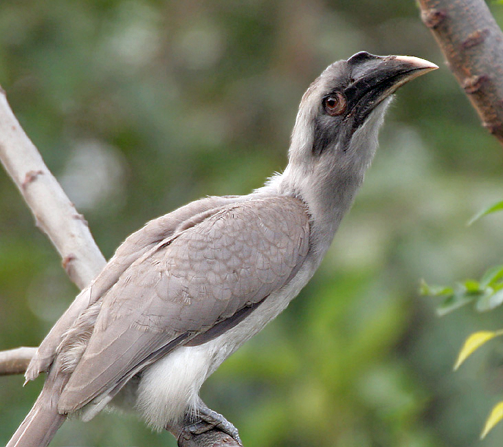 Indian Grey Hornbill Ocyceros birostris at Roorkee in Haridwar District of Uttarakhand, India.